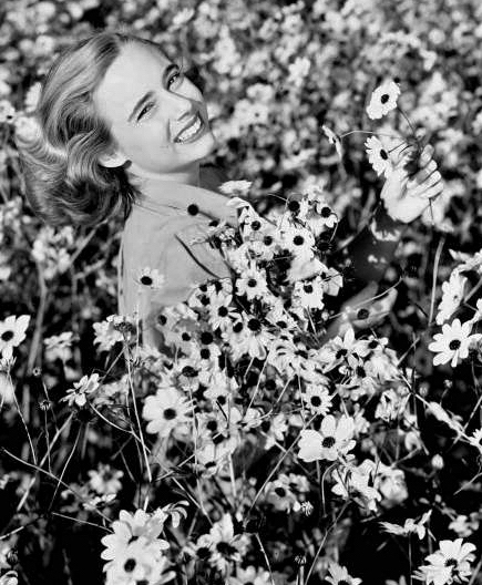 This file has been extracted from another file: Lois Duncan Steinmetz in a field of daisies in Taos, New Mexico.jpg